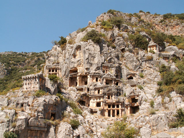 Demre-Myra